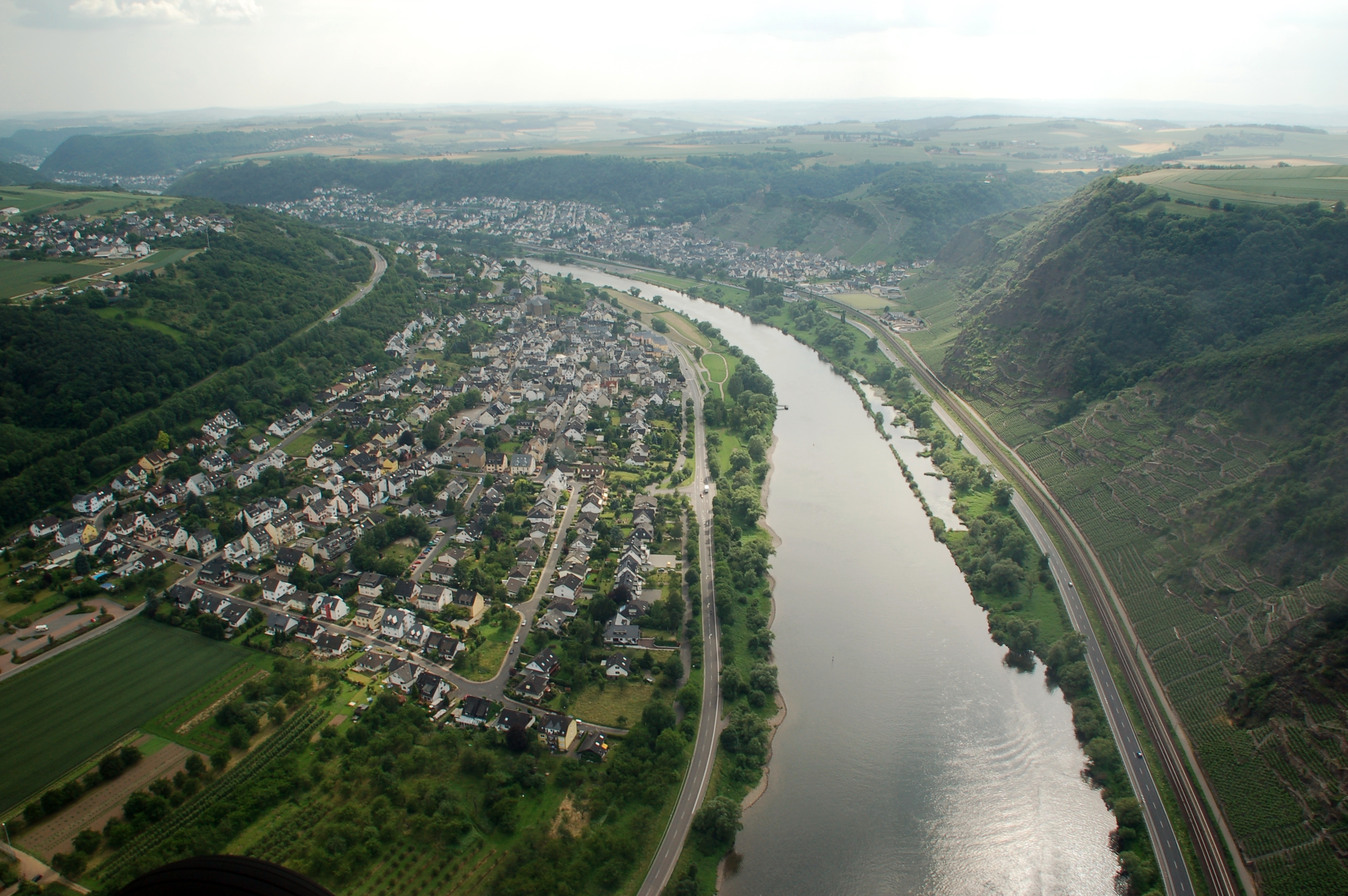 Aerial photograph of Dieblich, Rhineland-Palatinate, Germany